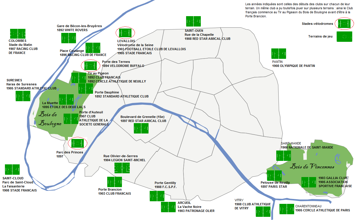 Map of first football club of Paris and their stadium